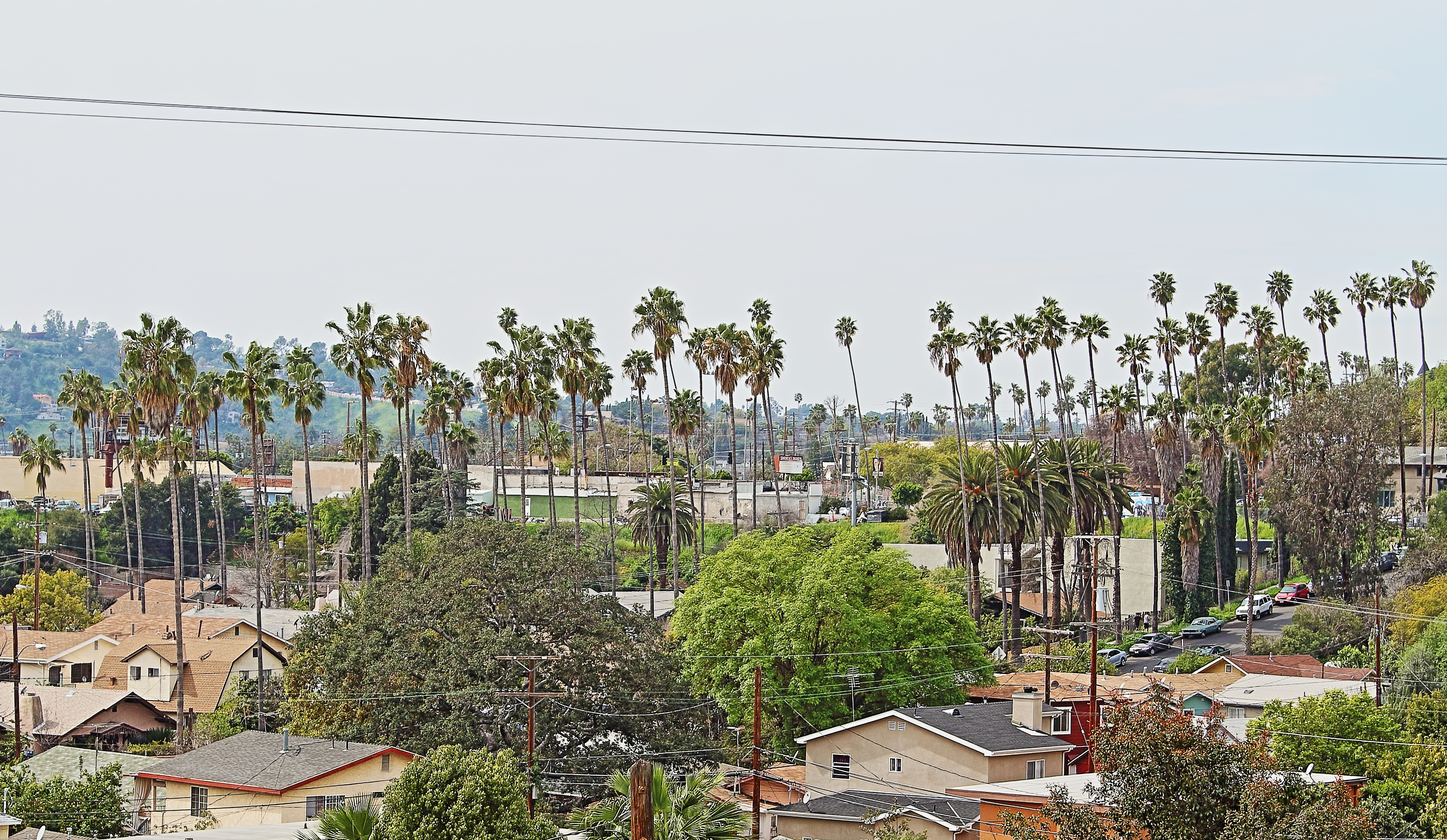 this is the view of Highland Park, marked with its signature palm trees as seen from Avenue 64